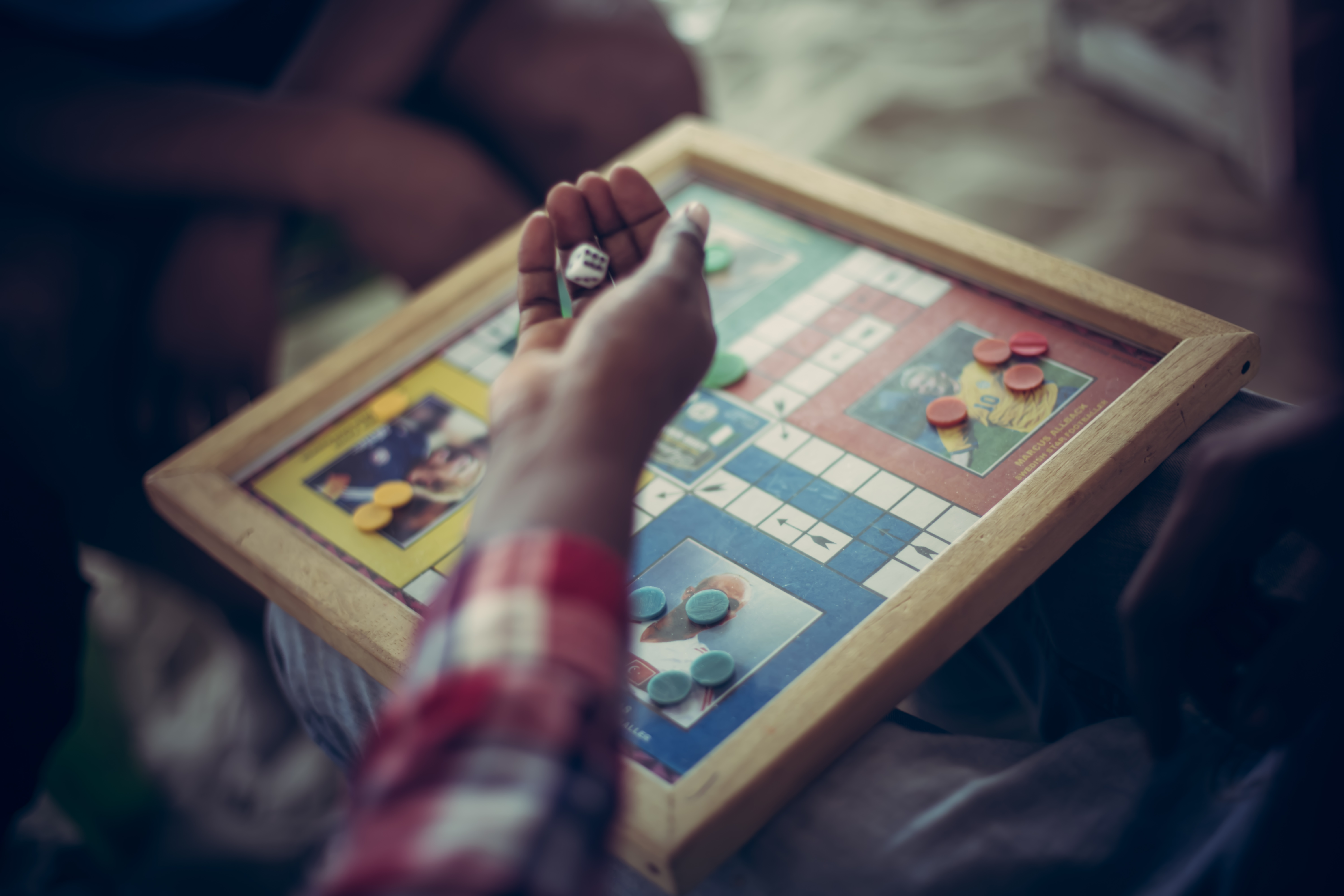 Ghanaian youth playing Ludu at a hangout